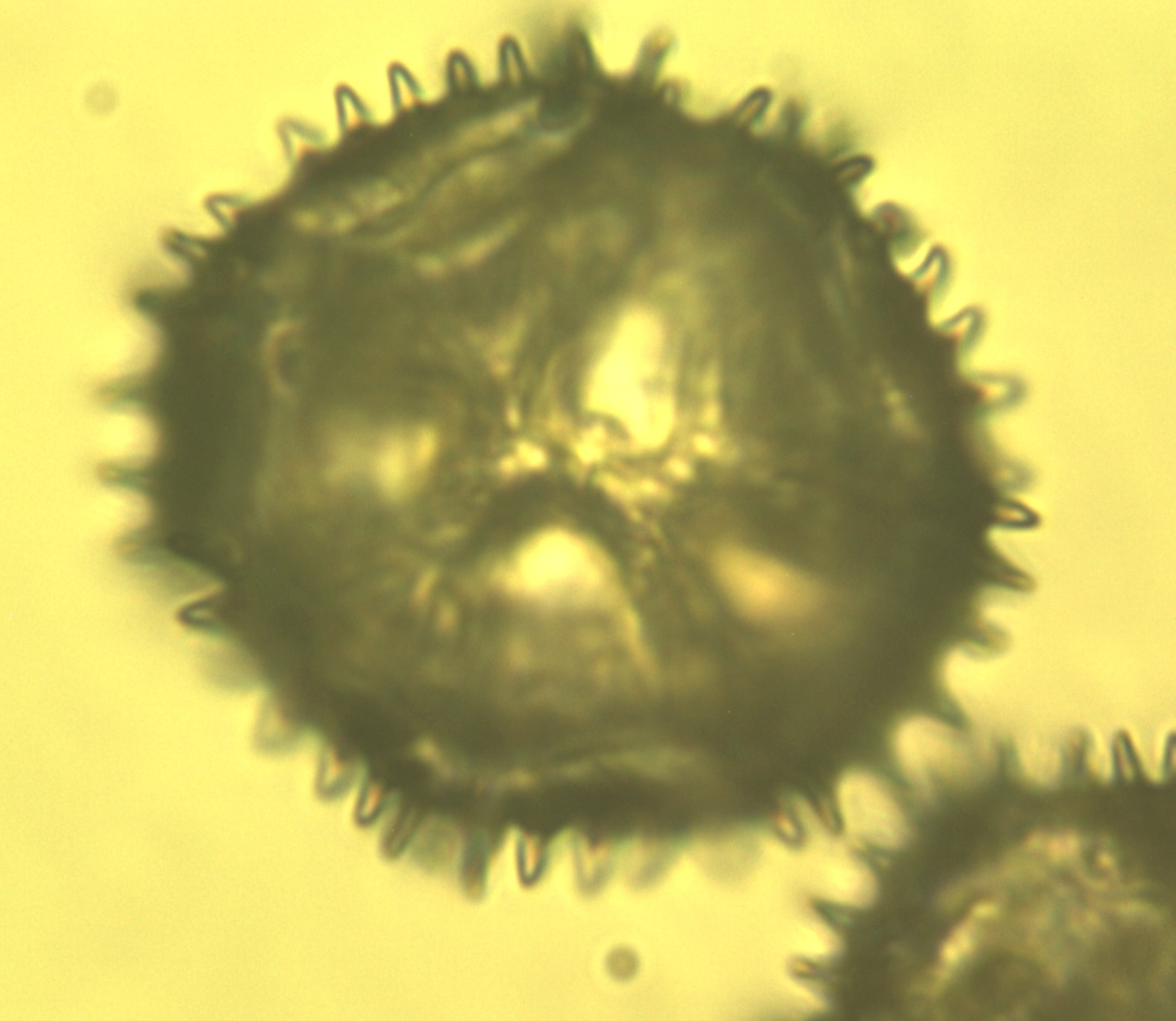 Cichorium intybus Pollen 400x